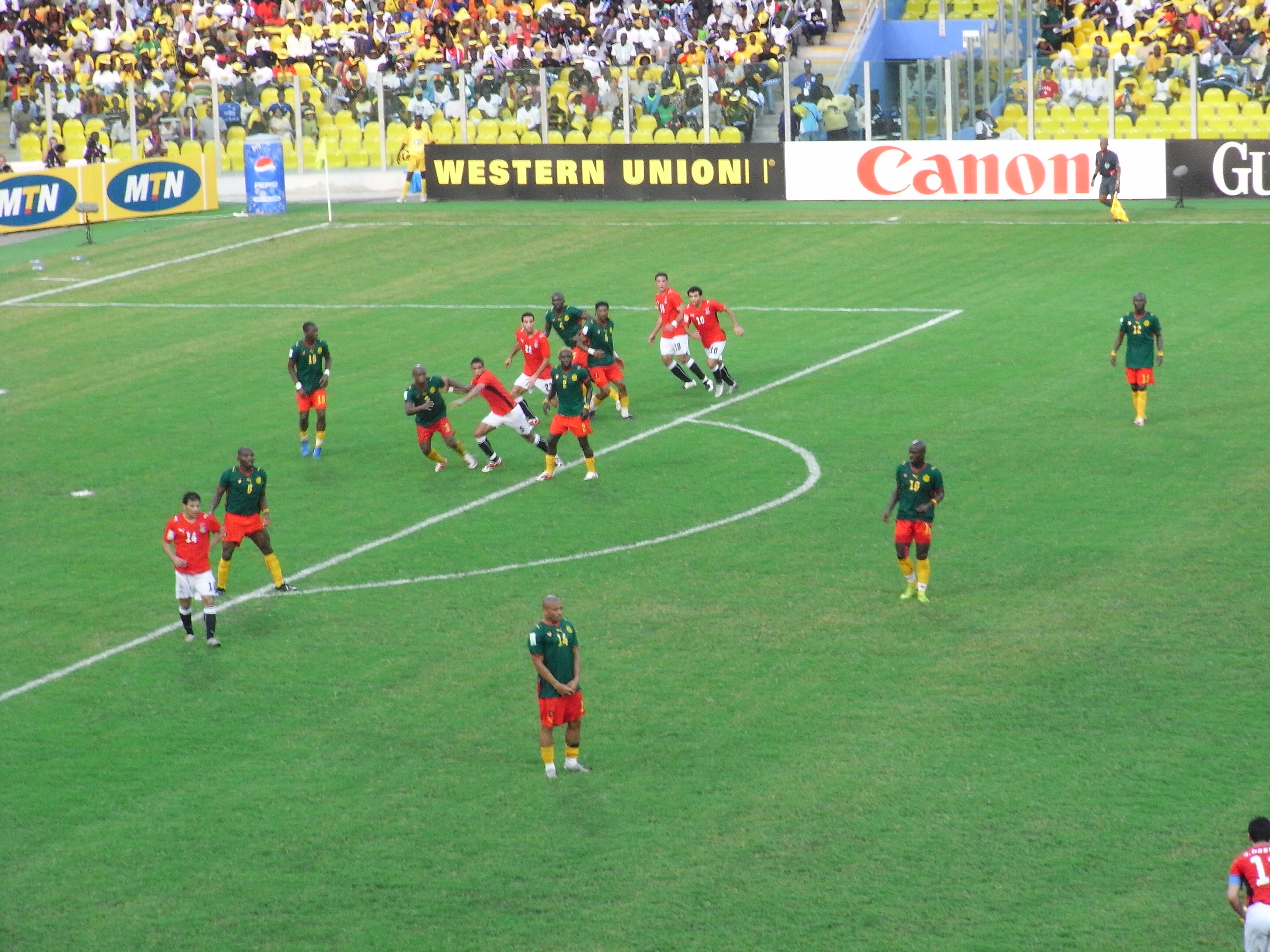 Scene during the final match Egypt-Cameroon, February 10th 2008